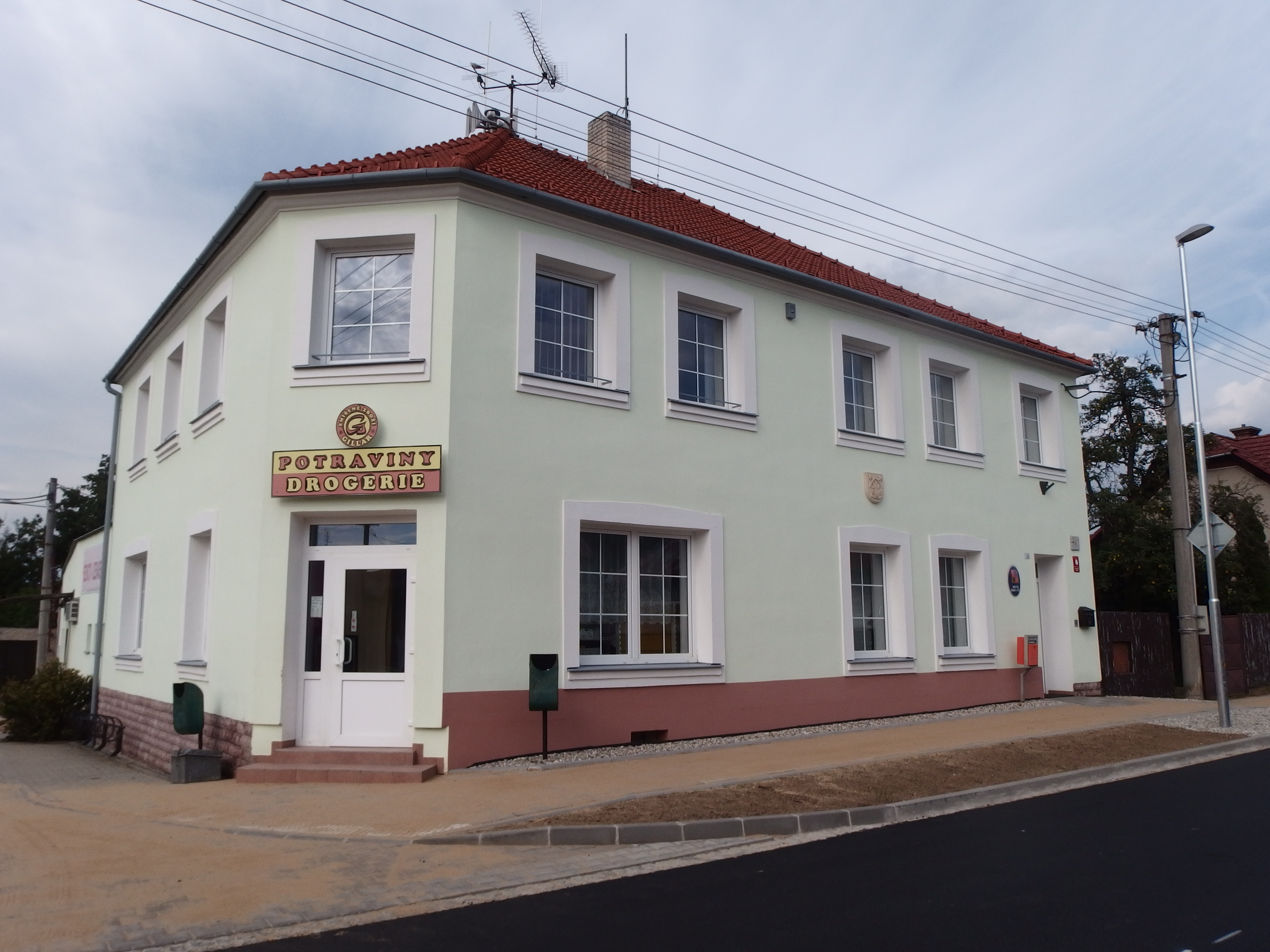 Bělkovice-Lašťany, Olomouc District, Czech Republic.